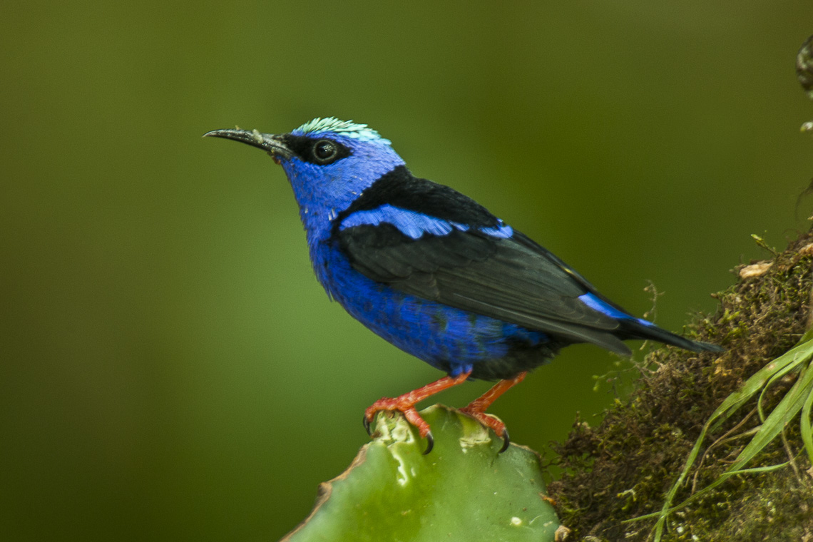 Red-legged Honeycreeper - Panama_H8O2103